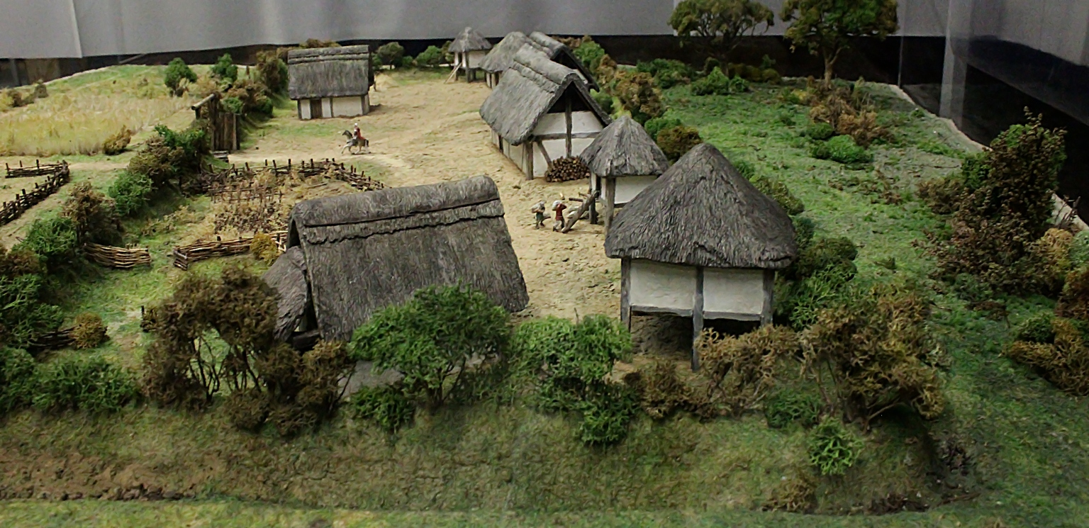 Model of the farm of Verberie (Gallic aristocracy). Cité des Sciences et de l'Industrie (Paris), "Les Gaulois, une expo renversante", from 19-10-2011 to 02-09-2012.